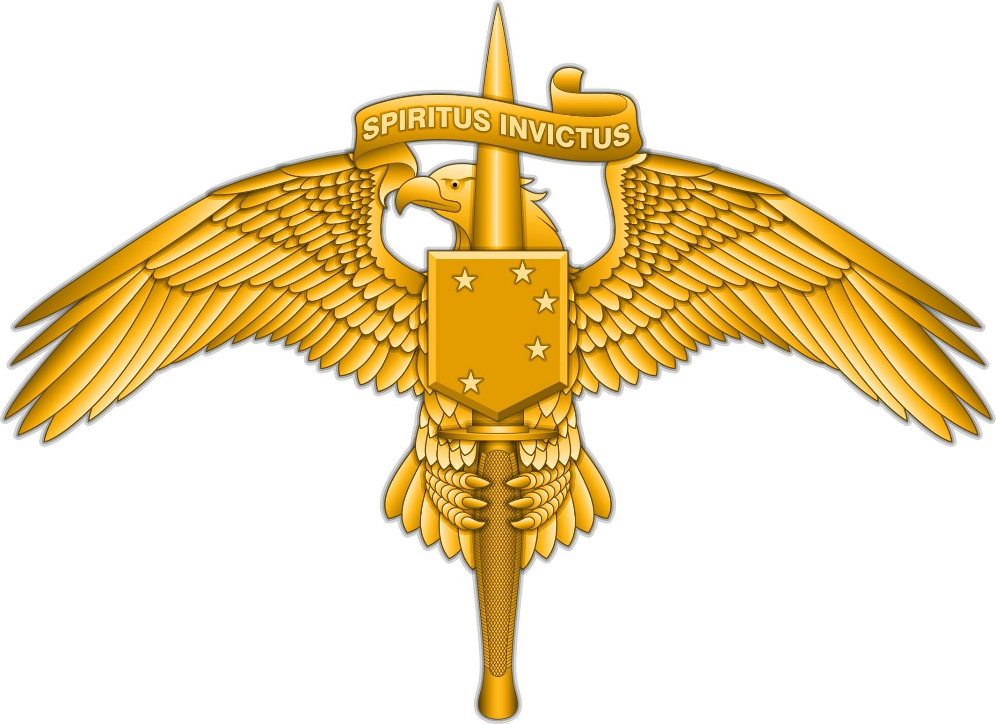 This is an image of the USMC MARSOC insignia